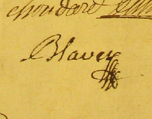 autograph sign of the french flutist Michel Blavet